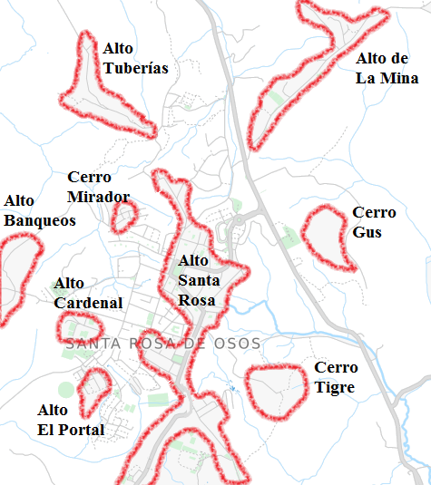 Colinas que componen el área urbana de Santa Rosa de Osos openstreetmaps